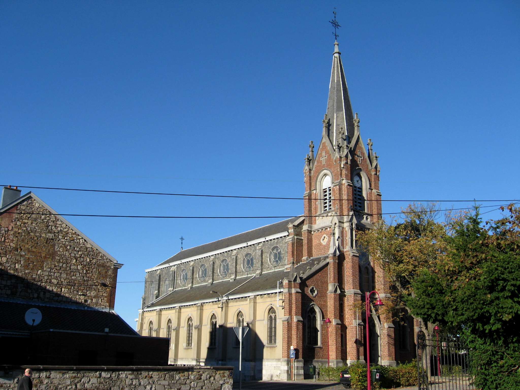 Church of Saint Hubert in Heusy, Verviers, Liège, Belgium